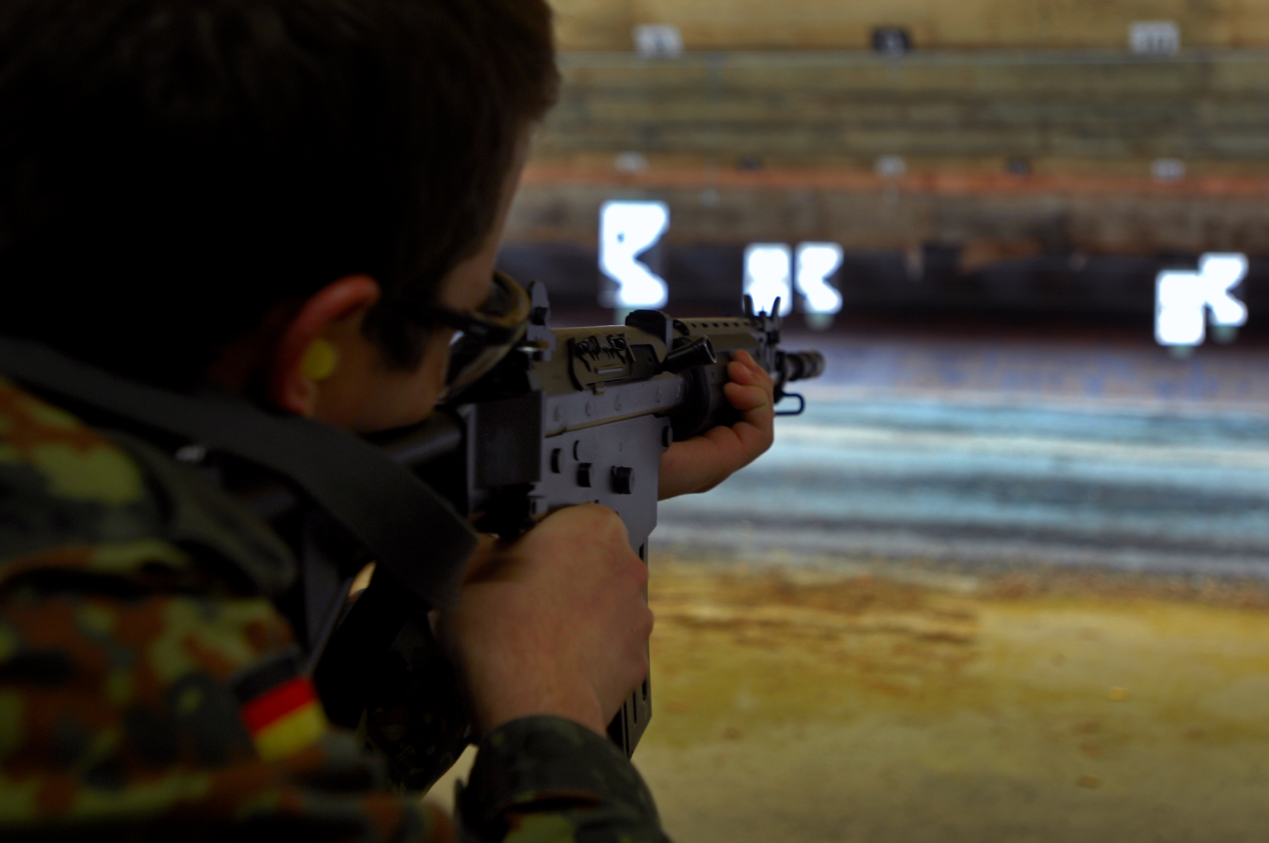 A German soldier aims his gun during a Belgium and German military forces weapons qualification at Ramstein Air Base, Germany, April 29, 2009.